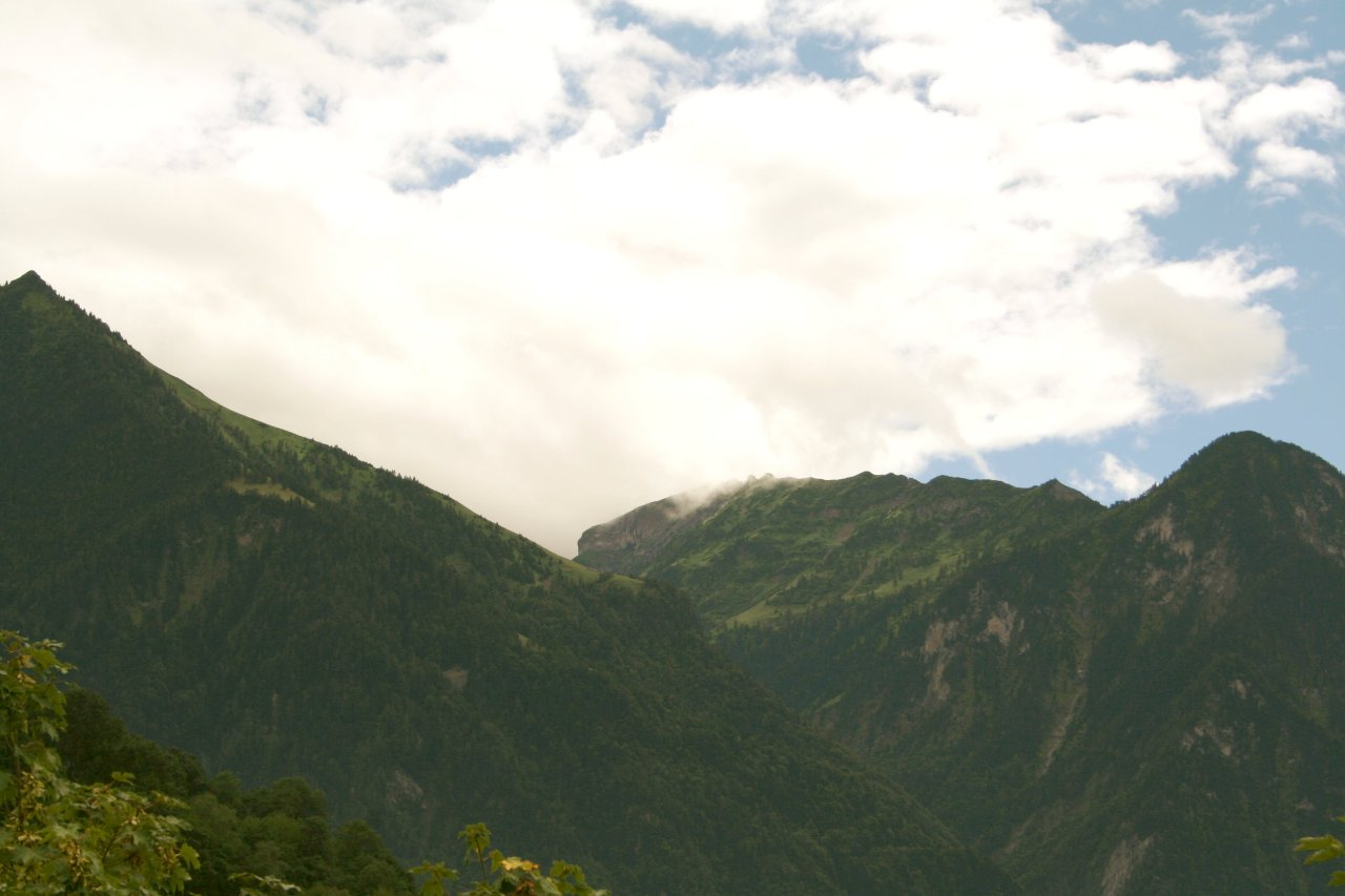 Koraspitz, Falknishorn/Mazorakopf (behind the cloud) and Mittlerspitz. Photo taken from Triesen.